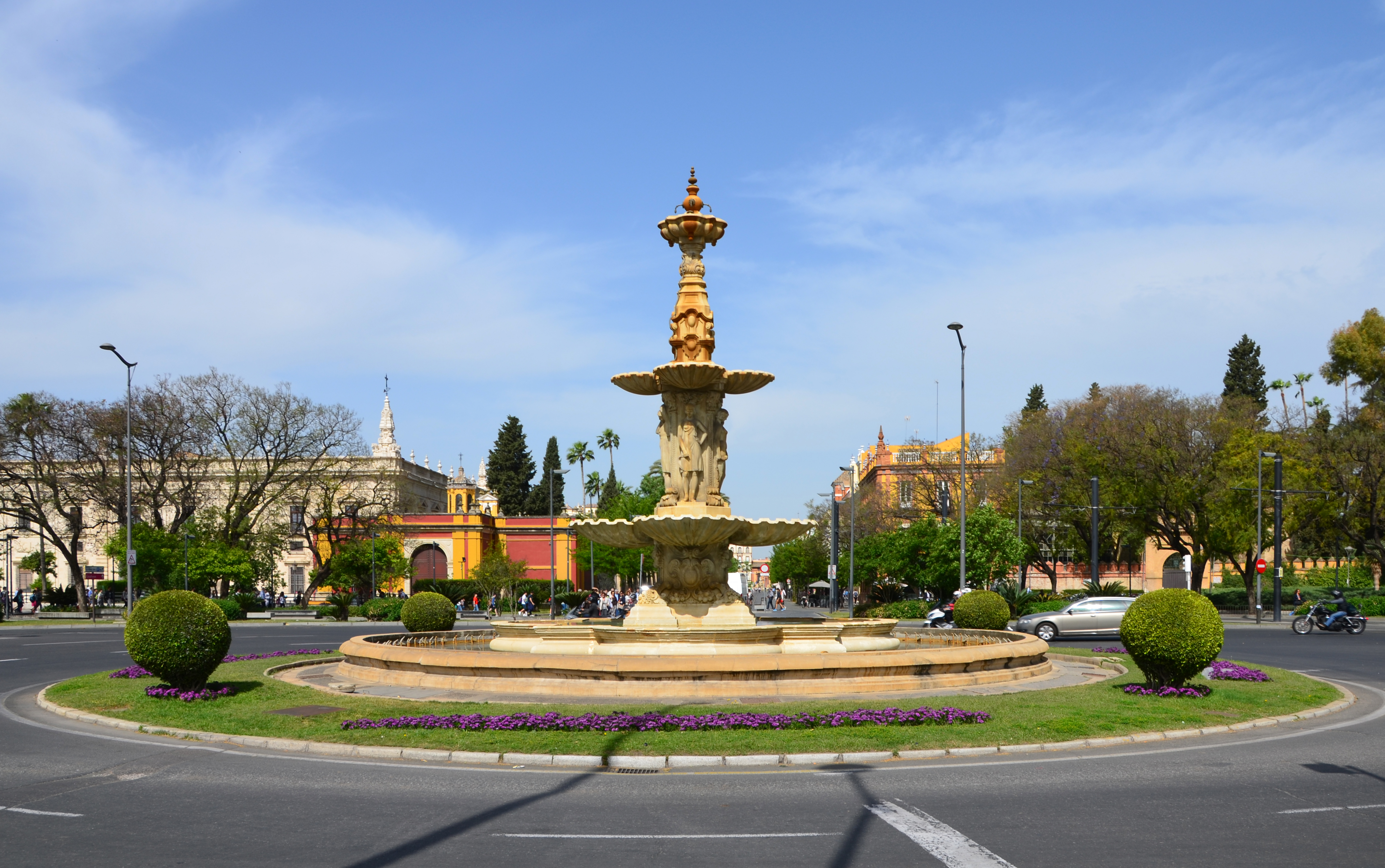 The fountain of the Four Seasons, in Don Juan de Austria square, in the Prado de San Sebastián (Seville, Spain).